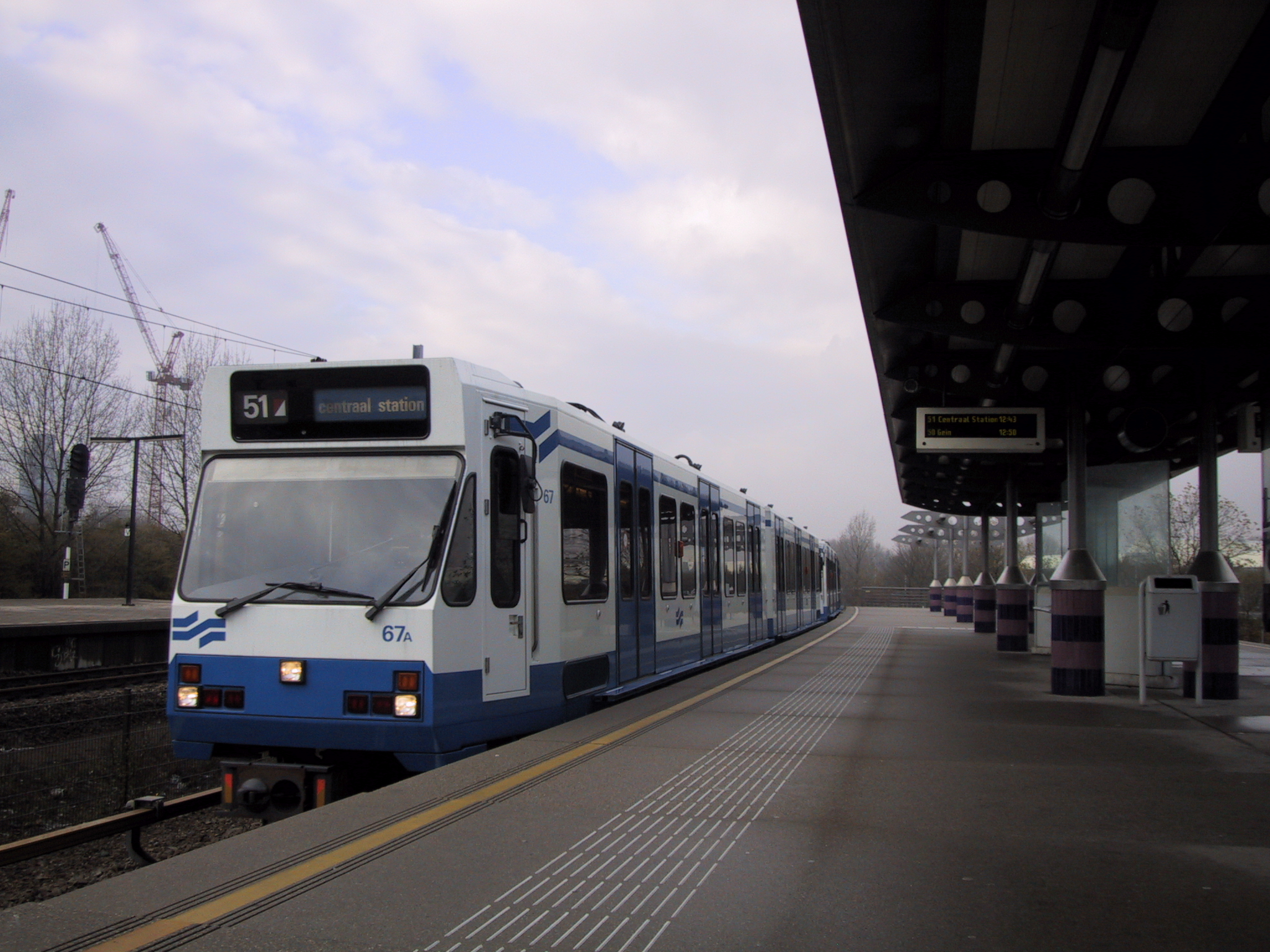 Me - 26/11/2005 - BN Rapid tram on route 51 at RAI station